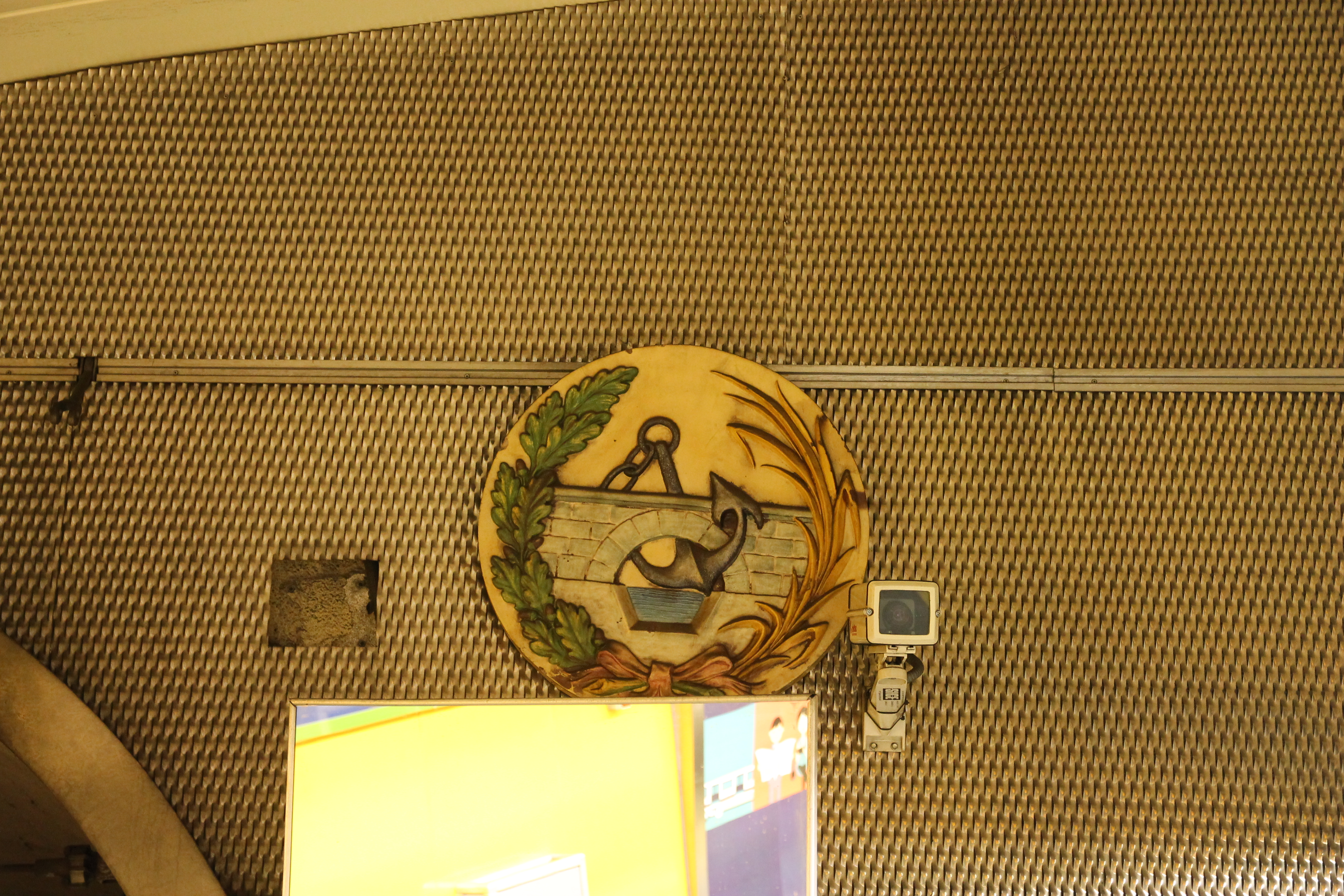 Estación de Campamento